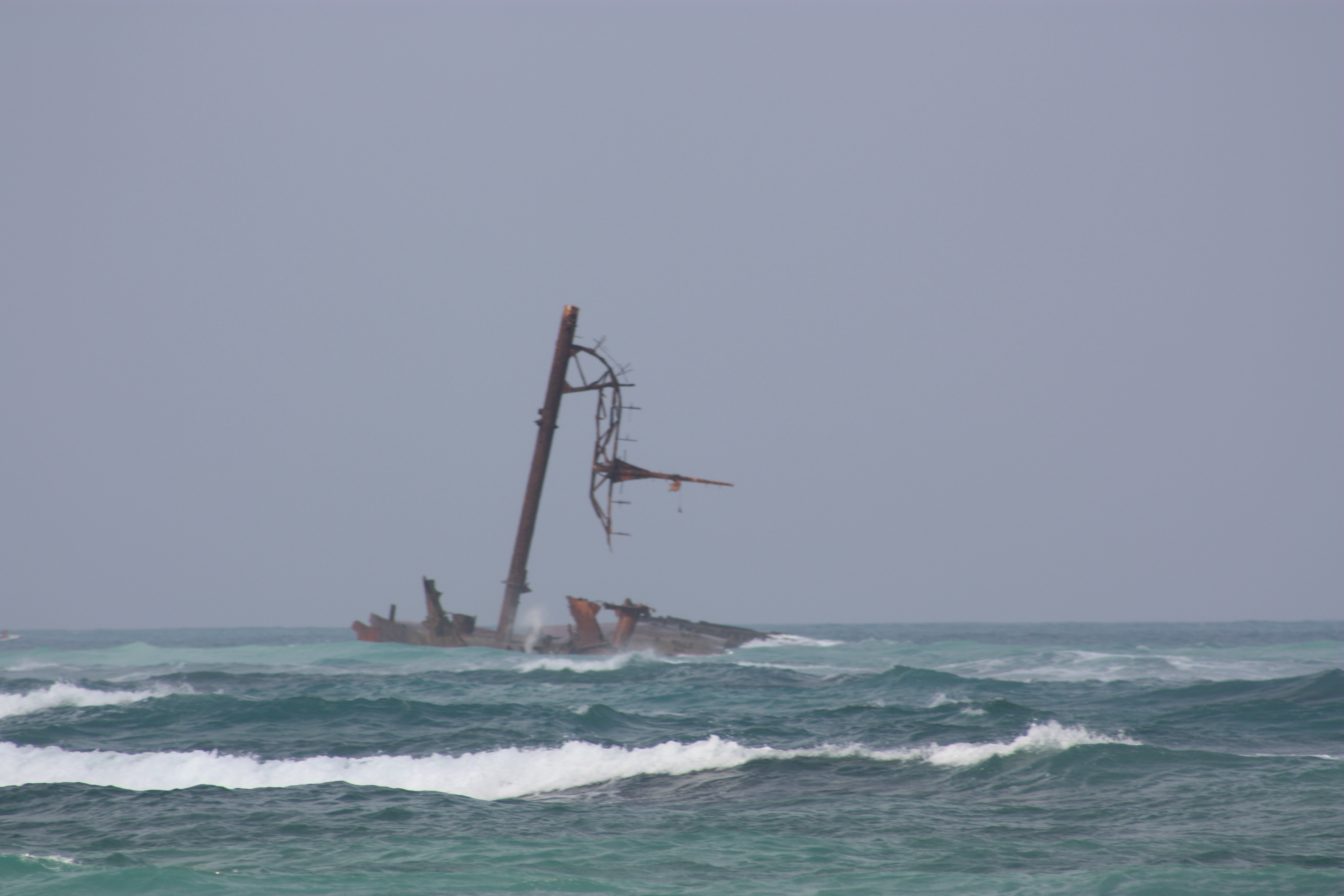 Taken from a long distance with a zoom lense the Astron appears to be deteriorating.